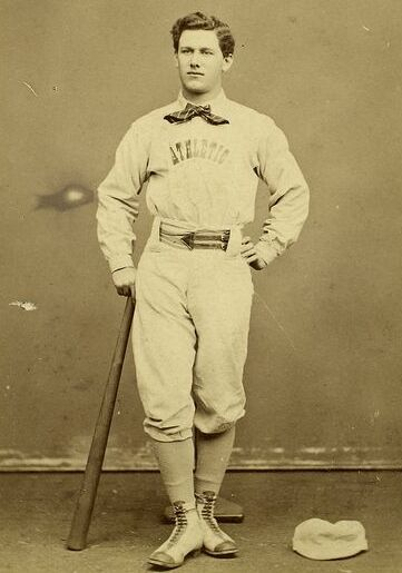 Tim Murnane, Extra First Base, 1874